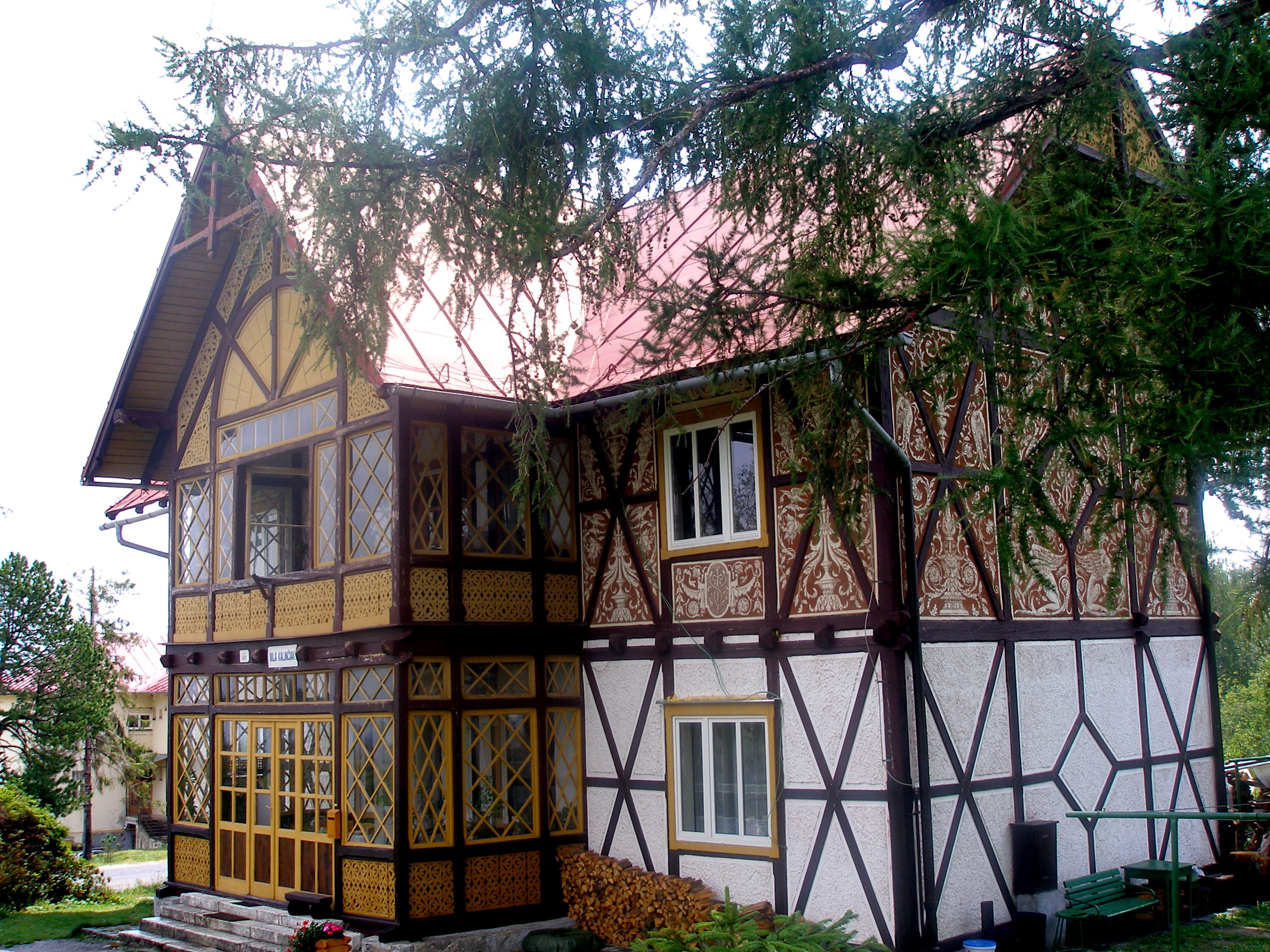 Vila Kalinčiak.Osada Dolný Smokovec, mesto Vysoké Tatry This medium shows the protected monument with the number 706-1022/0 in the Slovak Republic.